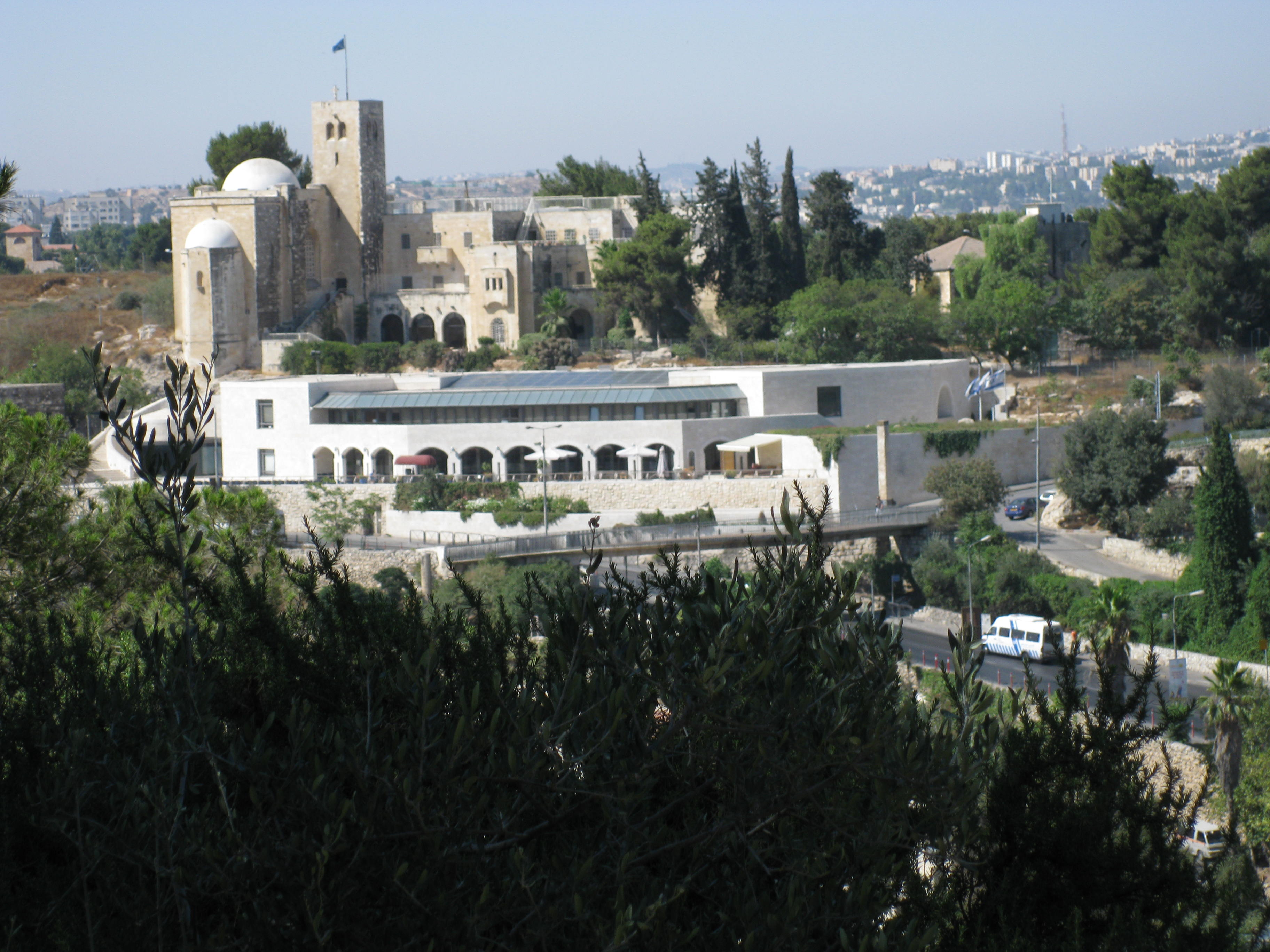 St Andrew's Church and the Begin Center, view from Mount Zion